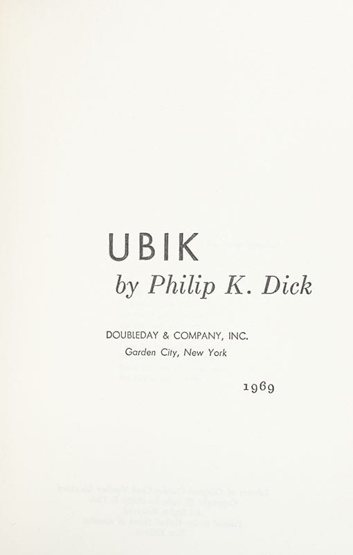 Ubik by Philip K. Dick